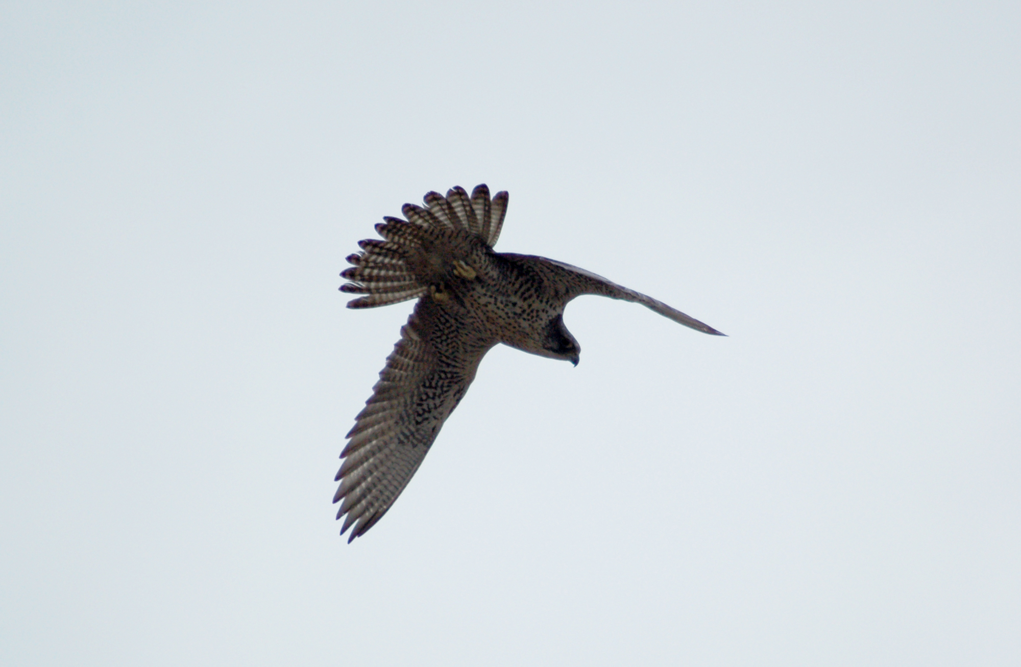 Location: A few miles west of Hastings, MN on Highway 55 - mile marker 216, Minnesota, USA